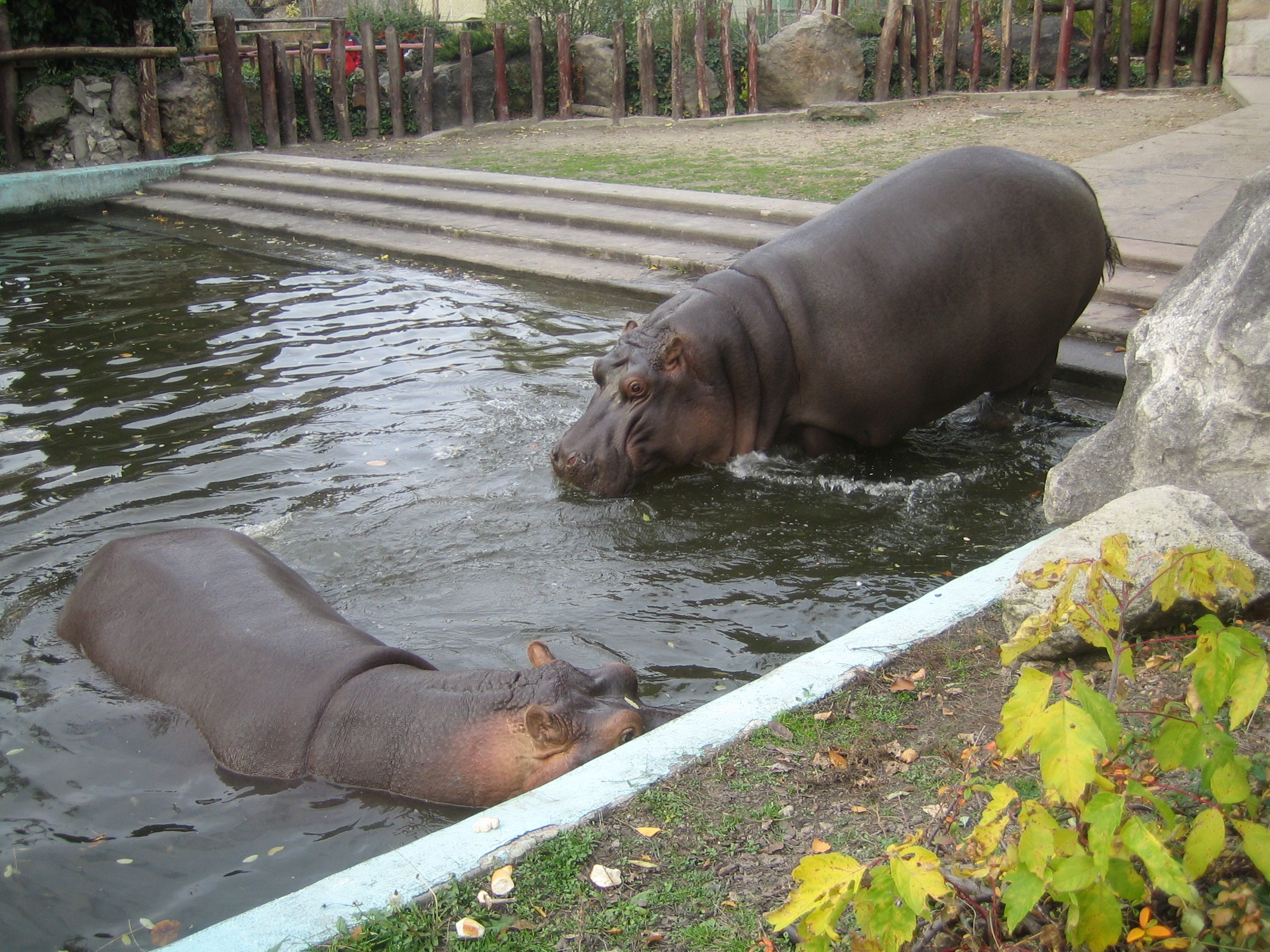 hippopotamus in Budapest zoo